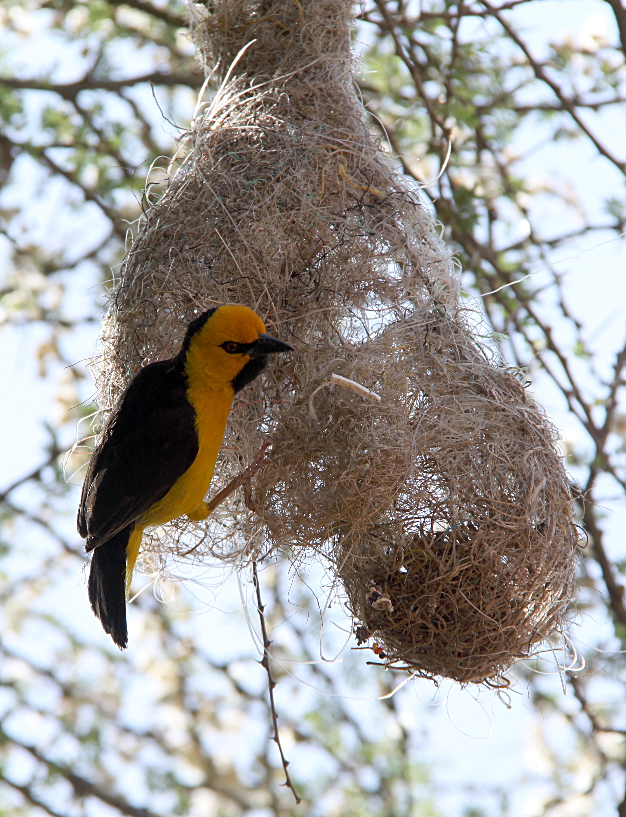 A male black-necked weaver, Ploceus nigricollis subspecies melanoxanthus, photographed at Amboseli Iremito gate